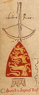 Illustration of the obituary of Richard I in Historia Anglorum by Matthew Paris. Text: Obitus Ric. / Corona et clipeus regis The shield is shown in inverted, below a crossbow, indicating Richard's death from a wound he received from a crossbow bolt. Literature: Suzanne Lewis, The Art of Matthew Paris in the Chronica Majora, California studies in the history of art, vol. 21, University of California Press, 1987, p. 180f. (shown there is the corresponding image from CCC 16, f. 17v; see also CCC 26, f. 106v.)